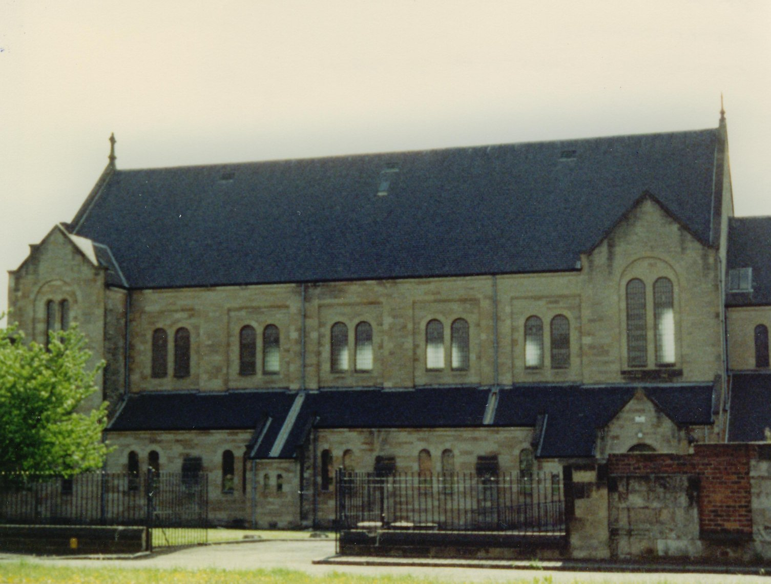 RC Cathedral, Paisley, Scotland